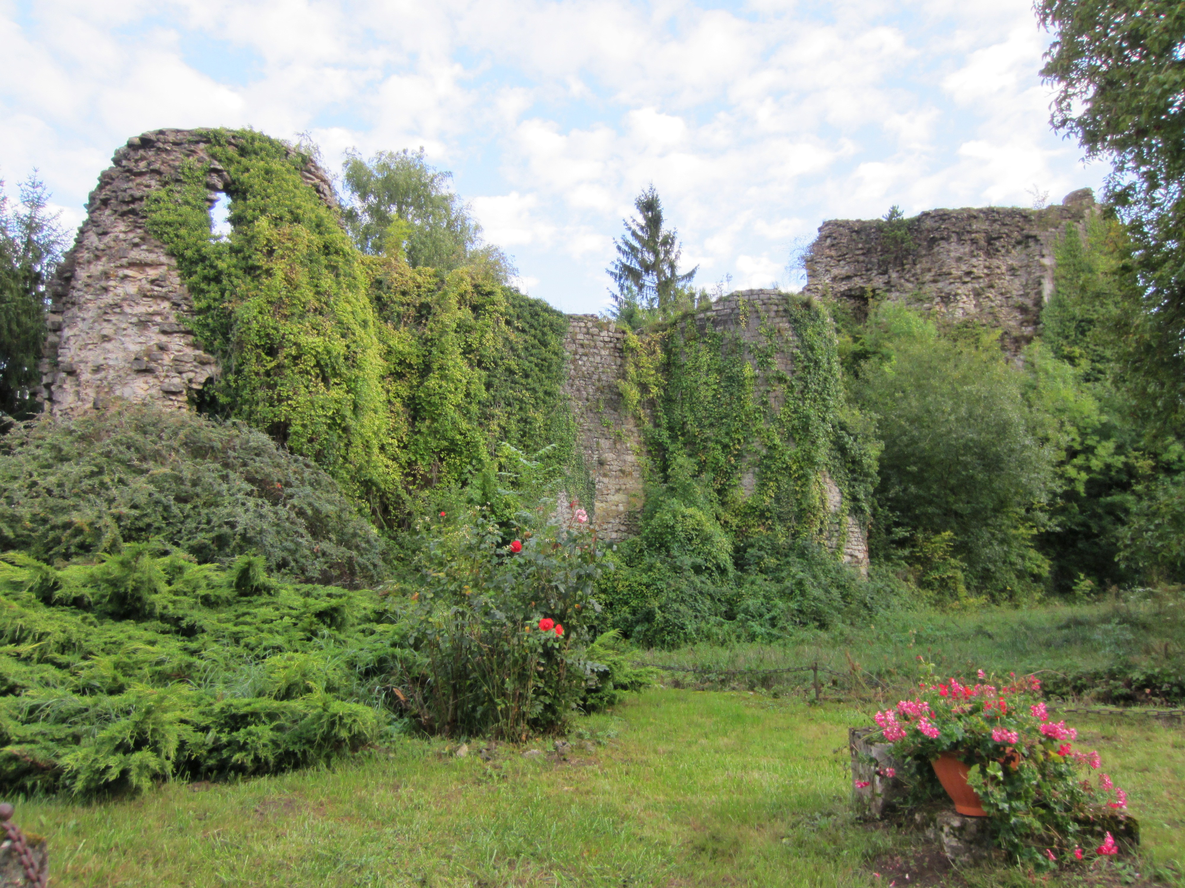 Description chateau Preny Date13 September 2011Sourcemon appareil photoAuthorAimelaimePermission(Reusing this file) chateau Preny